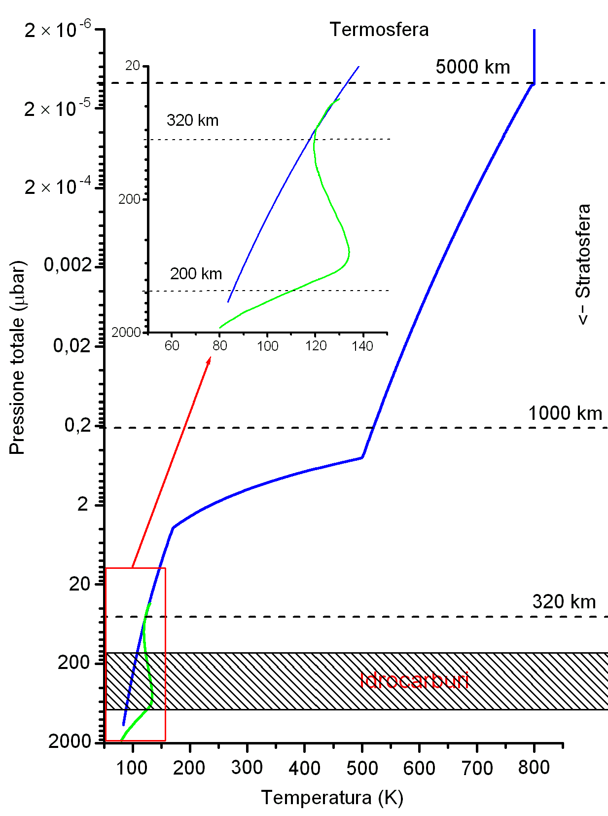 This figure shows temperature profiles in the stratosphere and thermosphere of Uranus. Approximate altitudes are also indicated. The shaded area is the layer with a high hydrocarbon abundance. The data of the blue curve are from Herbert et al.[1] The data of of the green curve are from [2]